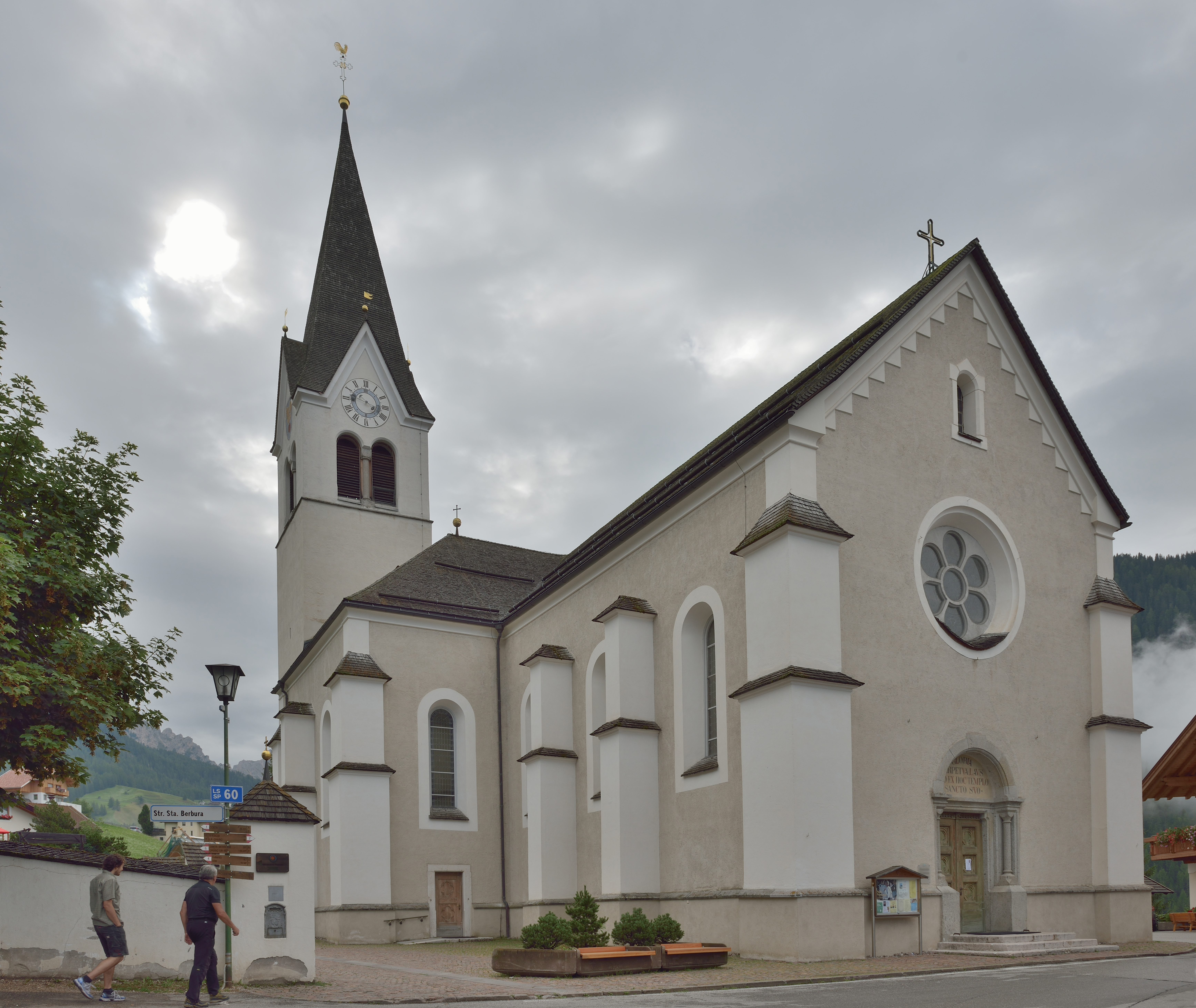 Parish church in La Val